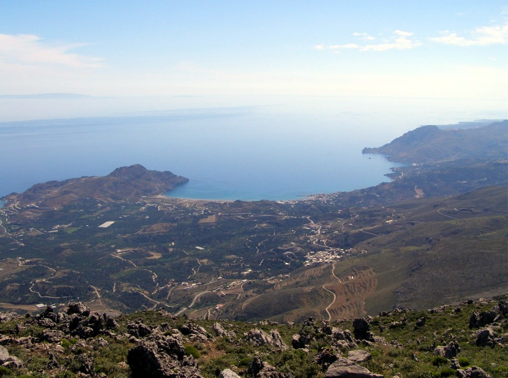 South of Dimos Finikas from Kouroupa-Hill, Nomos Rethymno, Crete, Greece